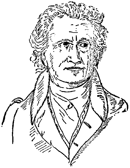 Portrait drawing of German writer Johann Wolfgang von Goethe